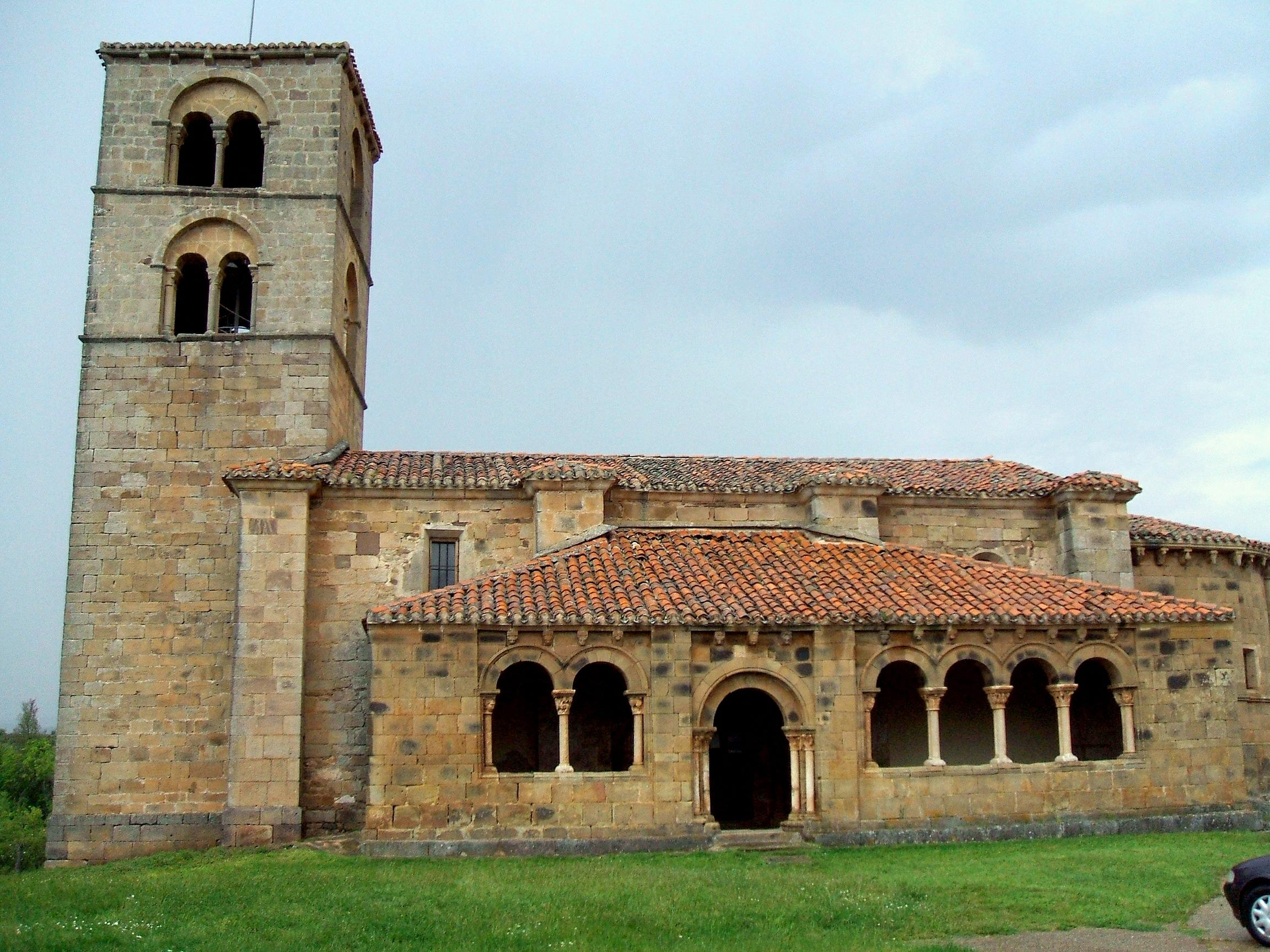 Iglesia románica de Nuestra Señora de la Asunción, en Jaramillo de la Fuente (Burgos, Castilla y León, España)